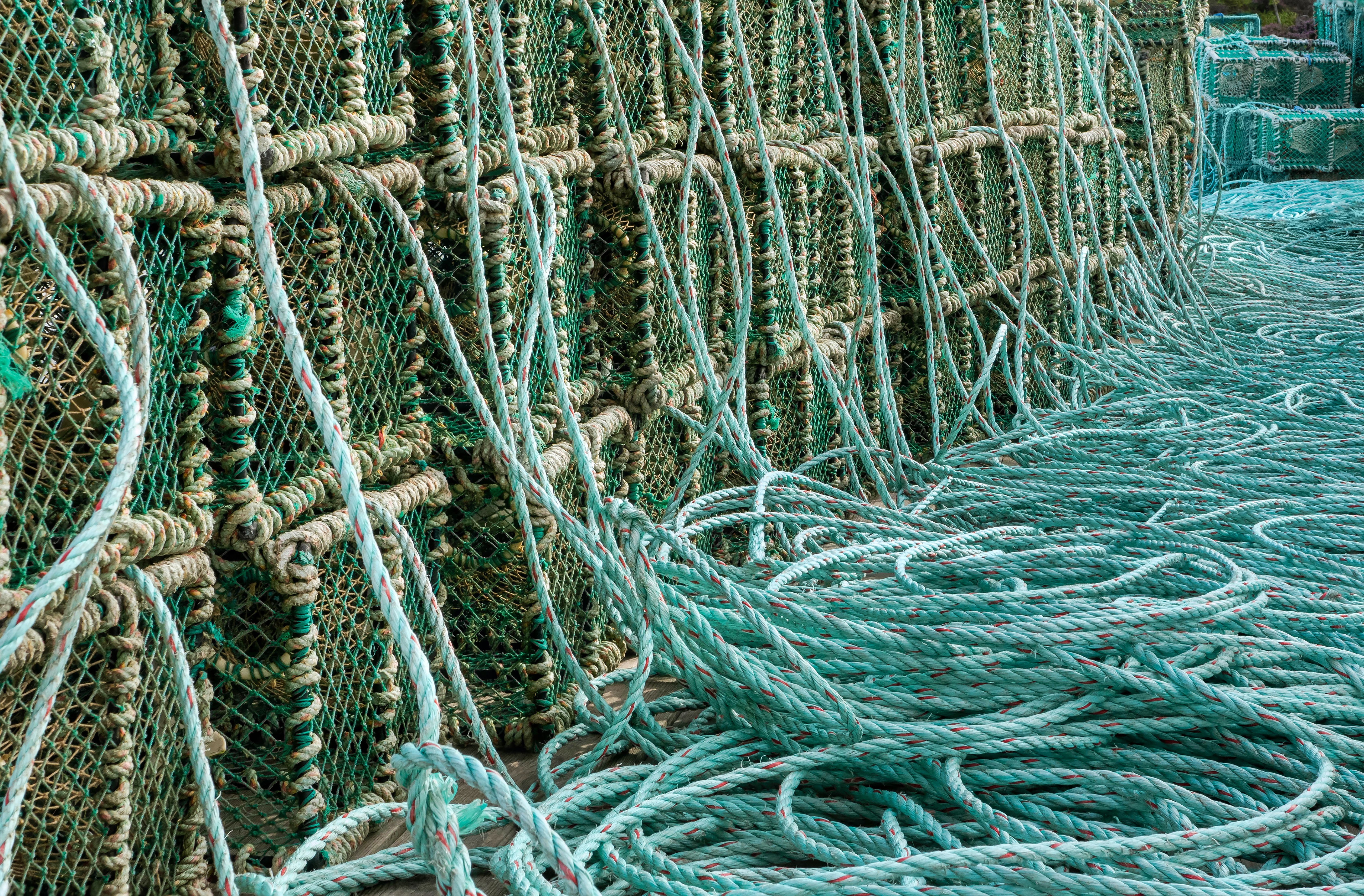 Stacks of lobster traps, also used for catching Norway lobsters (Nephrops norvegicus) on the fishing dock in Norra Grundsund, Lysekil Municipality, Sweden. The image in focus stacked from three photos.